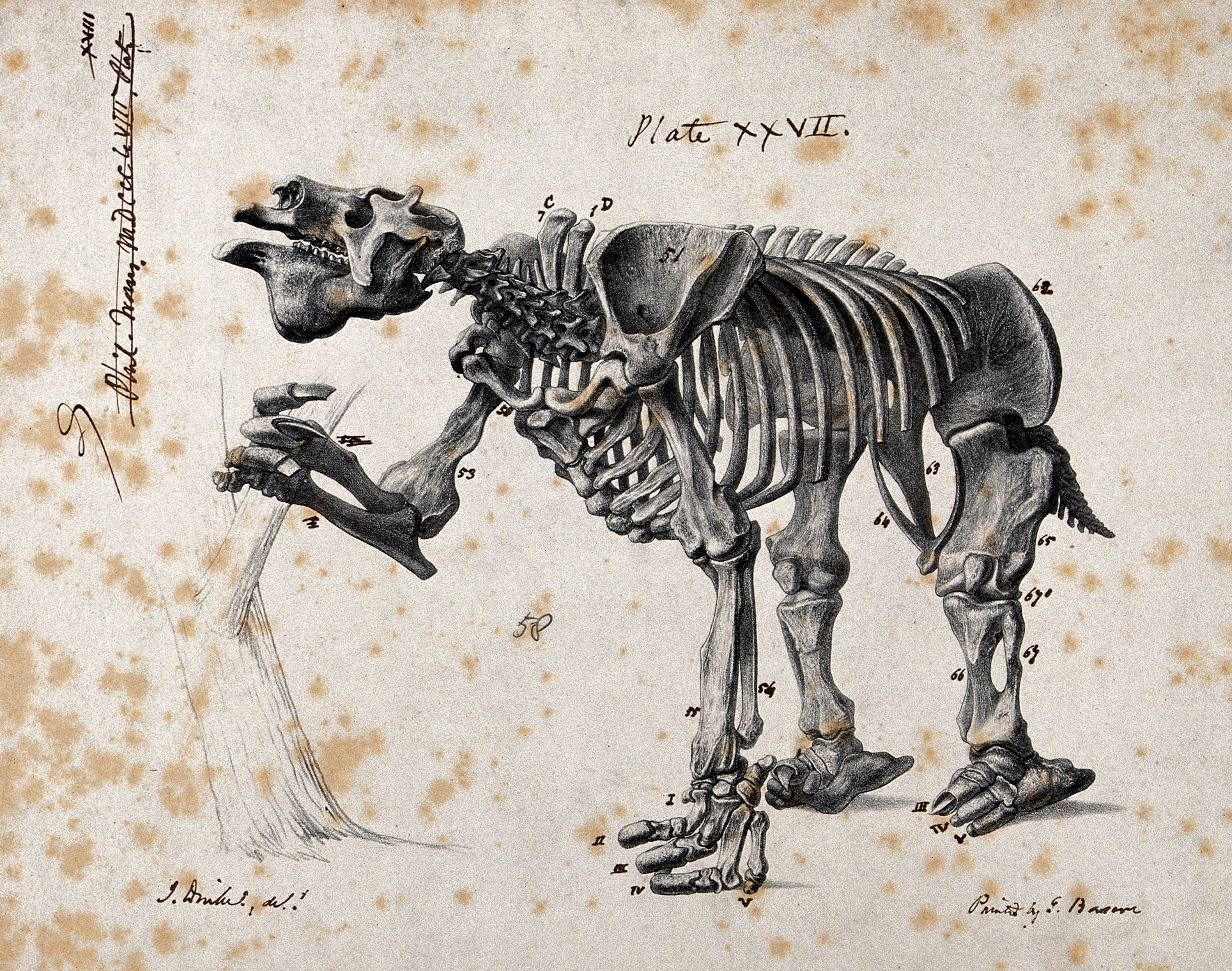 Skeleton of a mammal. Lithograph after J. Dinkel. Iconographic Collections Keywords: Joseph Dinkel